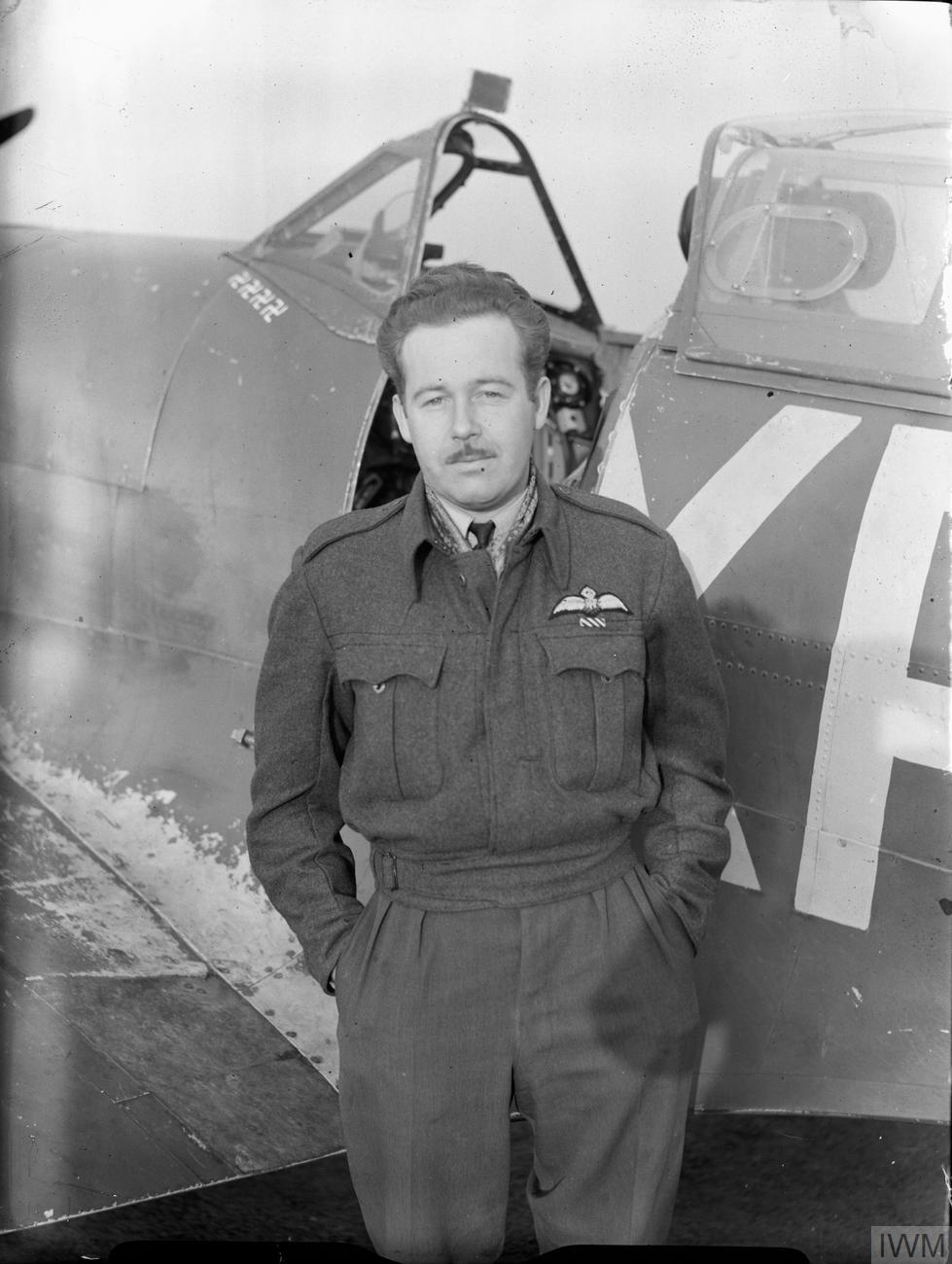 The Royal Air Force in Britain during the Second World War Pilot Officer C W "Red" McColpin of No 71 (Eagle) Squadron RAF, standing by his Supermarine Spitfire Mark VB at North Weald, Essex. He later became a flight commander with No. 133 (Eagle) Squadron RAF and, by the time of his transfer to the USAAF in September 1942, had shot down 9 enemy aircraft. In 1944 he returned to the United Kingdom as commander of a fighter group of the 9th USAAF. After the war, he commanded the 31st Fighter Group USAAF.